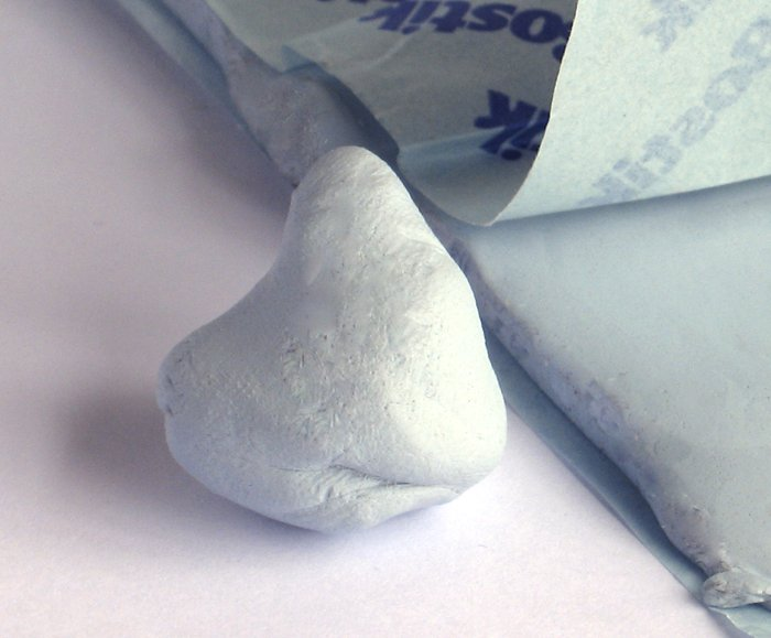 Photograph of some Blu Tack®